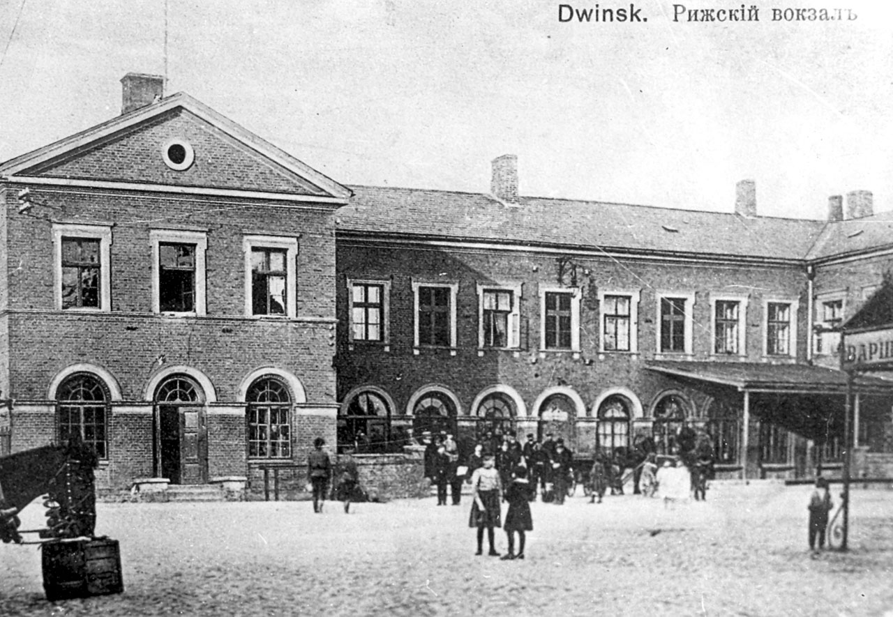 Daugavpils (before 1893 – Dinaburg, before 1920 – Dvinsk) Riga Railway Station.